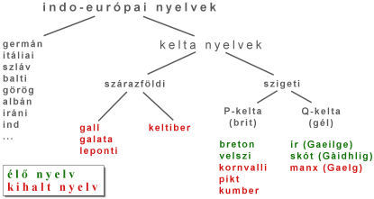 The family tree of the Goidelic languages